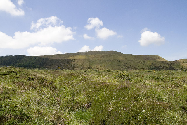 Hensbarrow Downs To the left of shot is an experimental conifer plantation which helps stabilise and softens the outline of the old china clay tip.